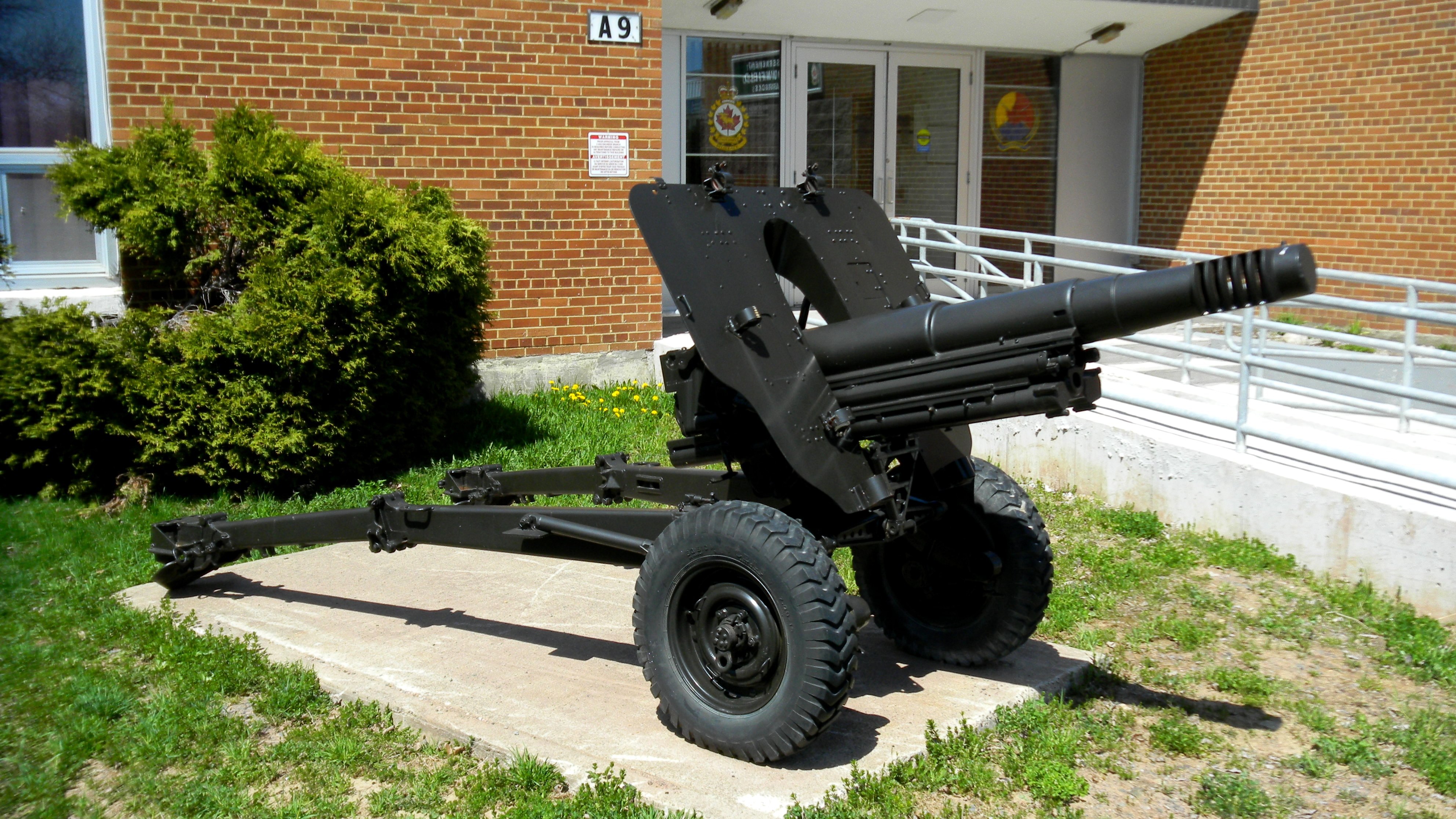 L5 105-mm Pack Howitzer on display at The Warrant Officer's and Sergeants Mess, 5 Canadian Division Support Base Gagetown, New Brunswick, Canada.